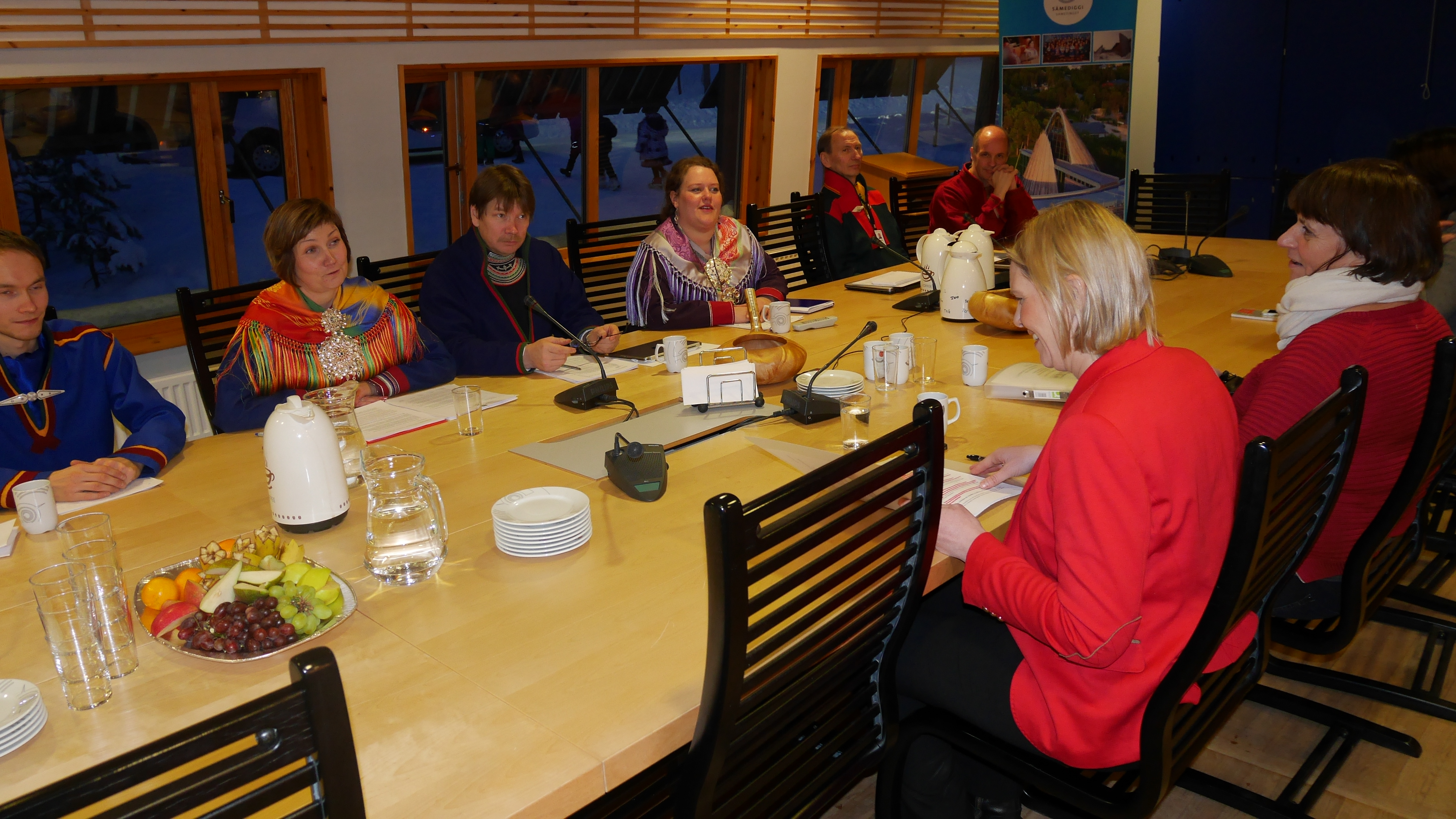 Norway's Minister of Agriculture and Food, Sylvi Listhaug, at a meeting with the Sami Parliament of Norway.